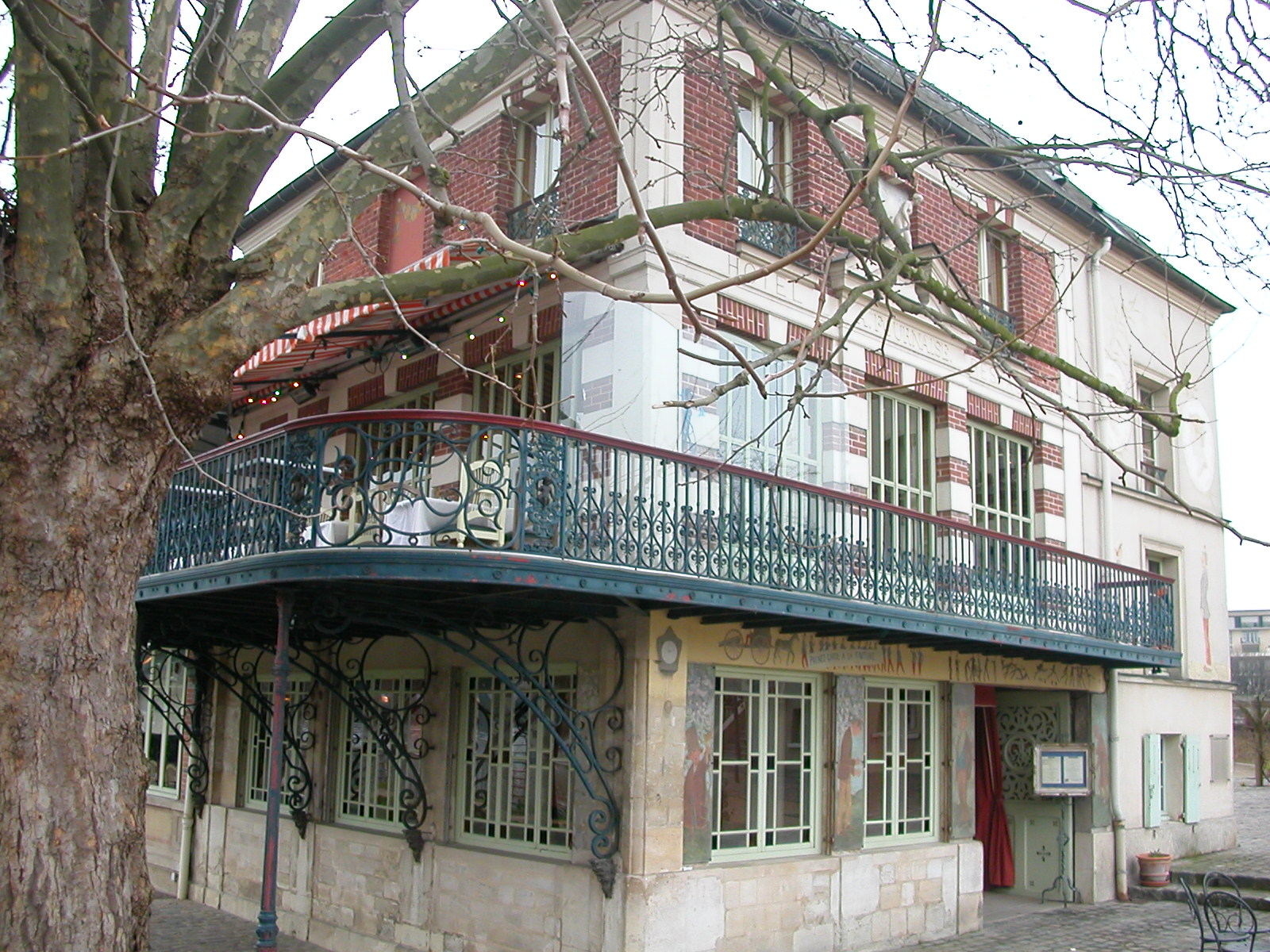 Maison Fournaise, Chatou, Yvelines